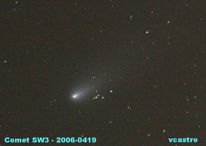 Comet Schwassmann-Wachmann 3 (73P) C component, as seen 19 APR 2006 from Mt Laguna, Calif. 55sec @ f/2.8 @ ISO 1600, Canon 20D, 400mm f/2.8 on Meade LXD55. Paul Martinez & Philip Brents, [1].